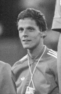 Gerard Nijboer, 2nd placed, marathon, Olympic Summer Games 1980.